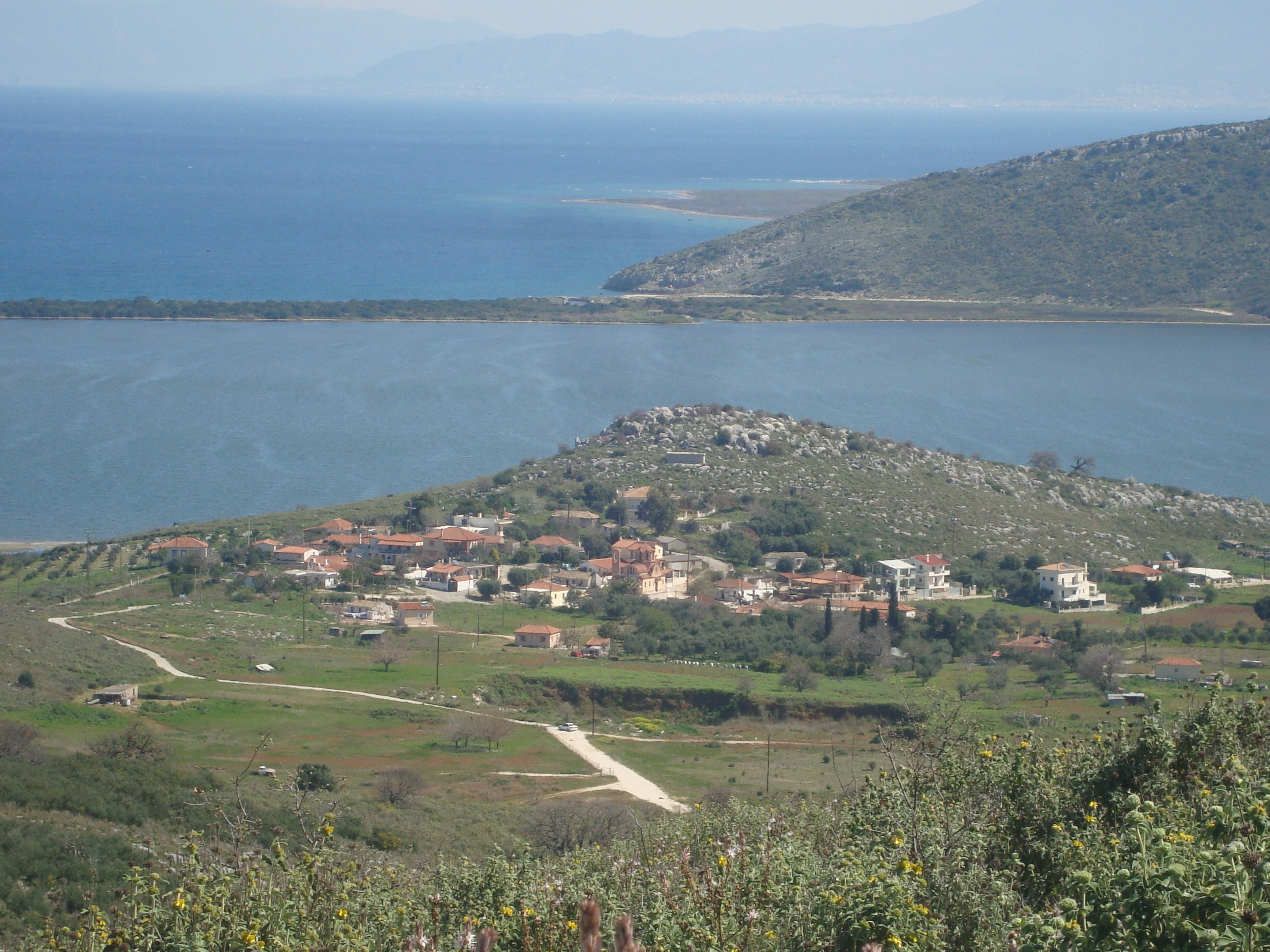 "Akrotirio Araxos (Cape Araxos)" village in Achaia, Greece